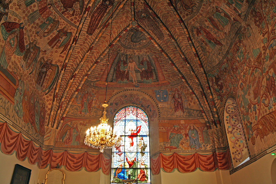 The frescoes of Pyhän Ristin kirkko (Church of the Holy Cross) in Rauma, Finland.